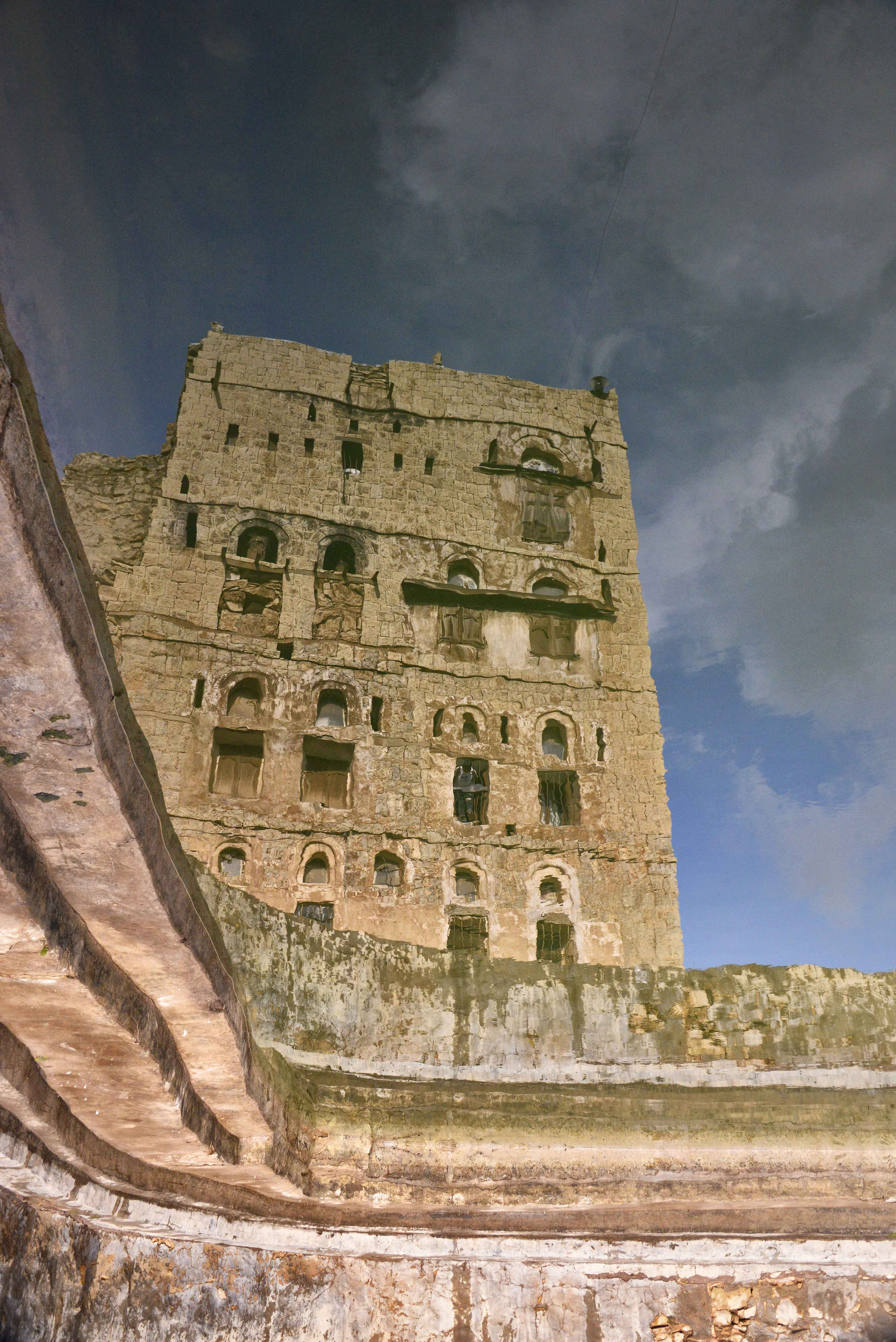 Pool Reflection, Yemen